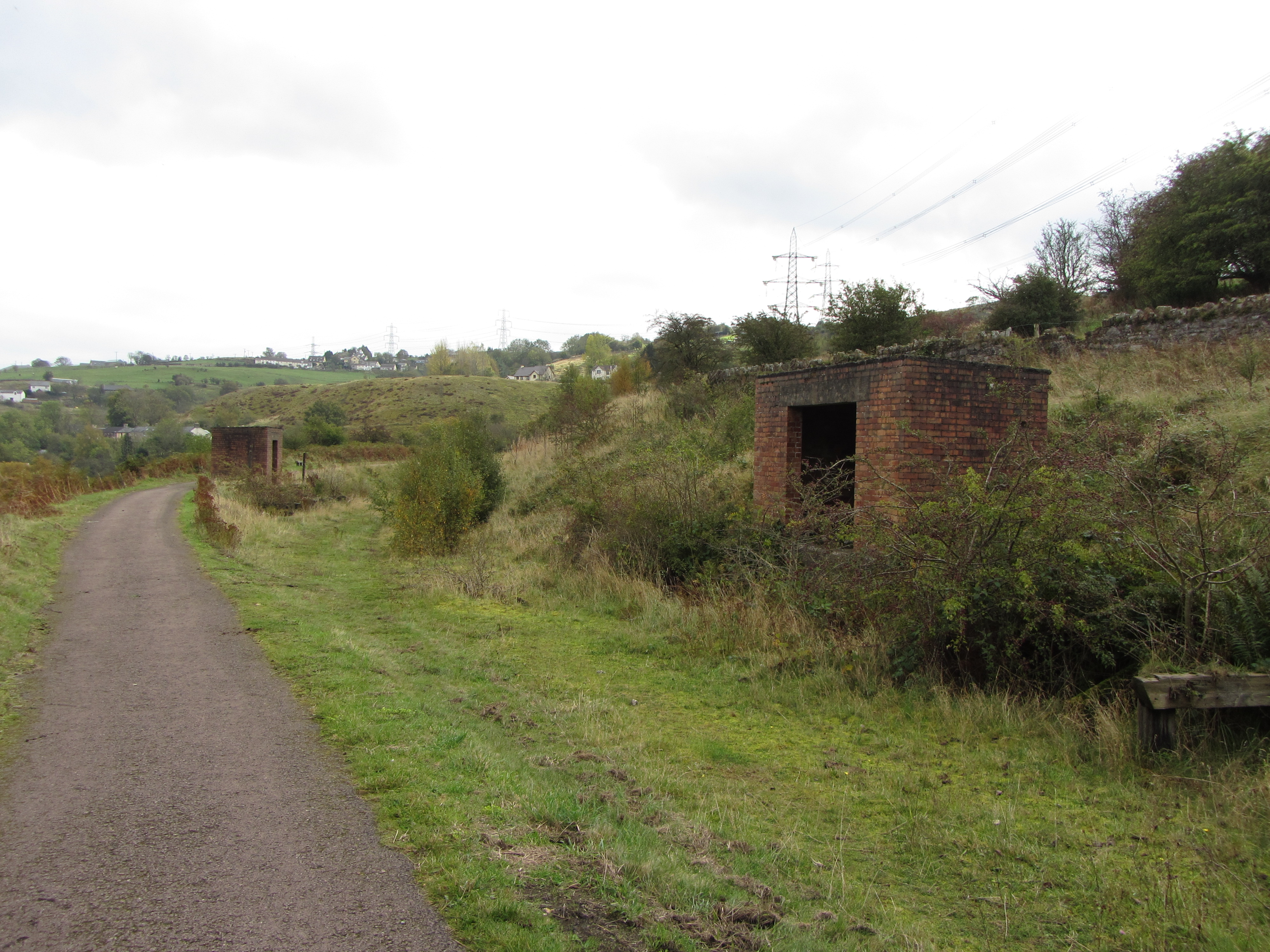 Gelli-Felen halt The former halt on the Merthyr, Tredegar and Abergavenny Railway. Both platform shelters survive; attached to each was a short, wooden platform, some of the timbers of which are still in situ. National Cycle Network route 46 passes to the left.